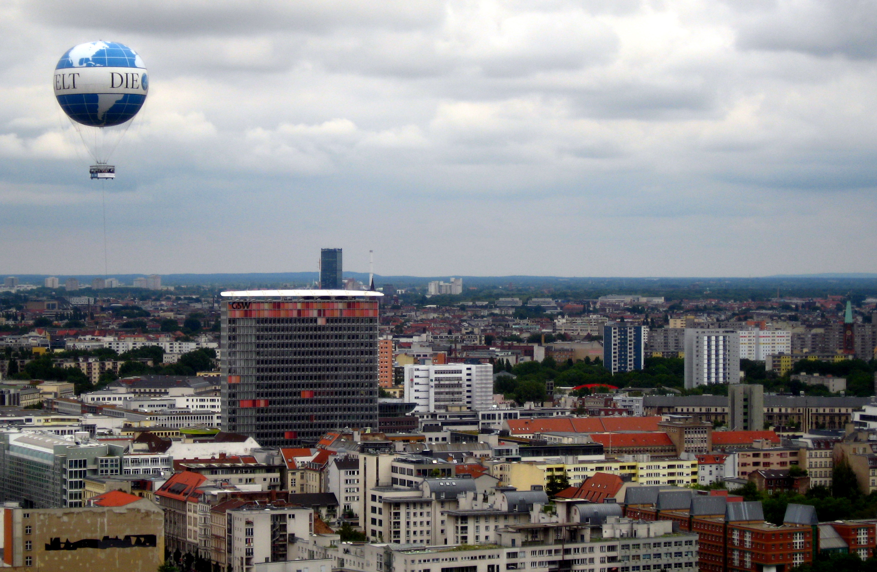 A balloon advertising Die Welt (a German newspaper) over Berlin